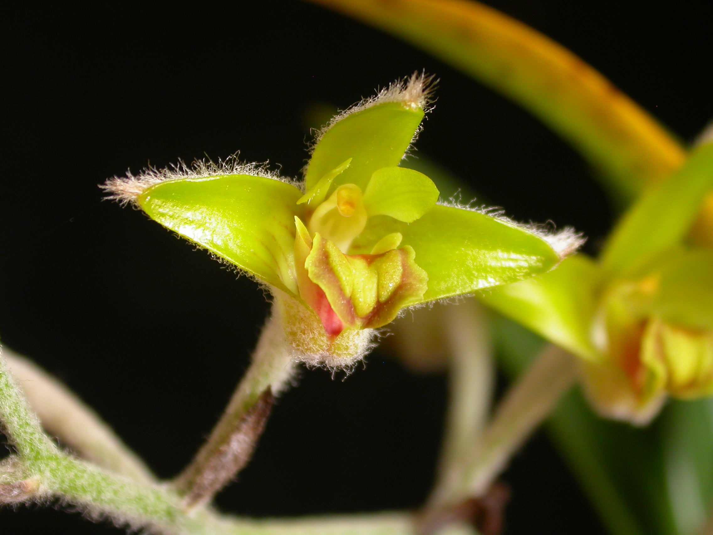 Eria